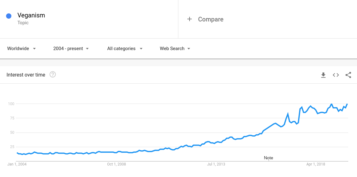 Screenshot of Google Trends showing a worldwide increase in searches related to veganism.